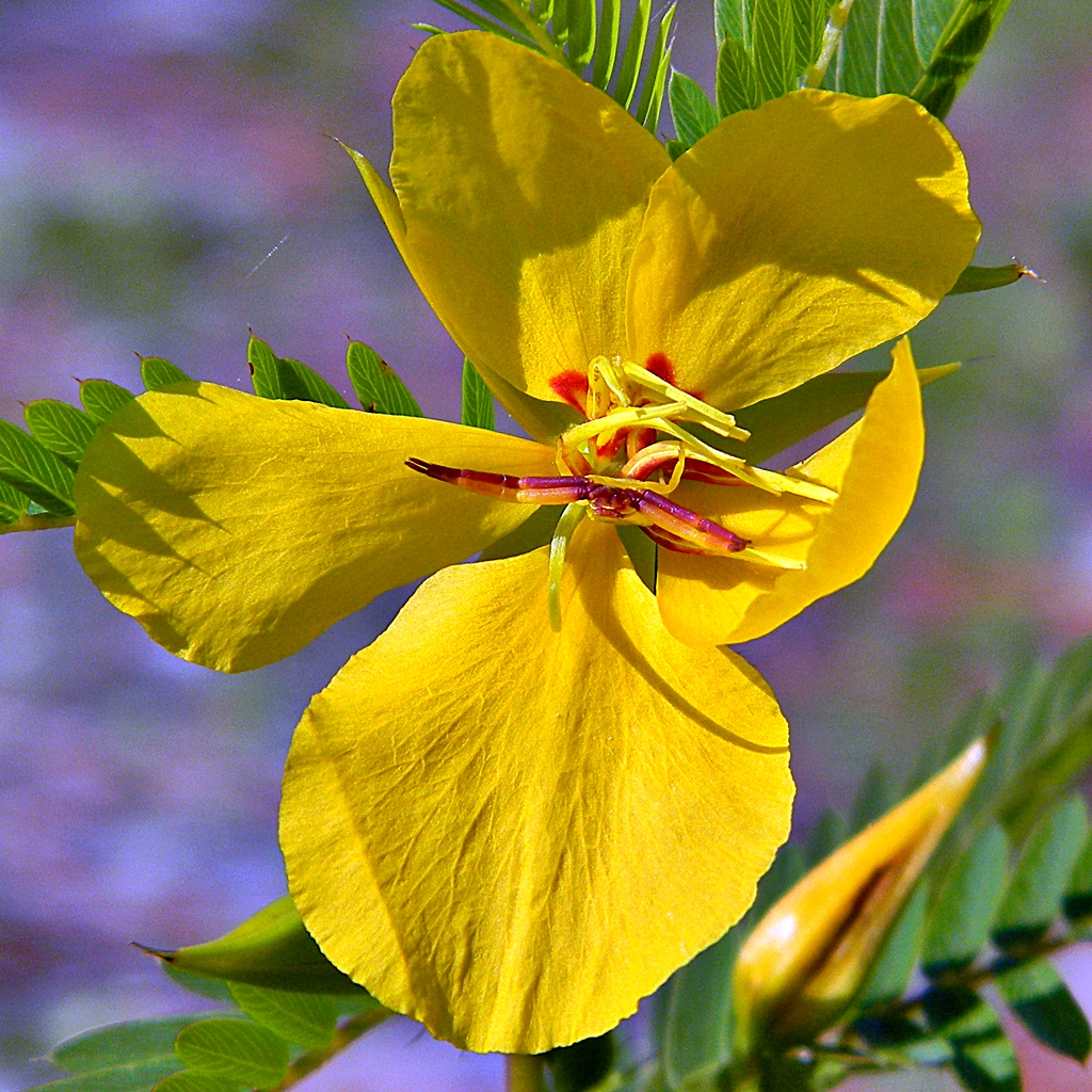 Not a friendly reception! A very well camouflaged crab spider becomes part of a Partridge Pea to lie in wait for a visiting insect. Sweetbay Natural Area, Palm Beach County, Florida.